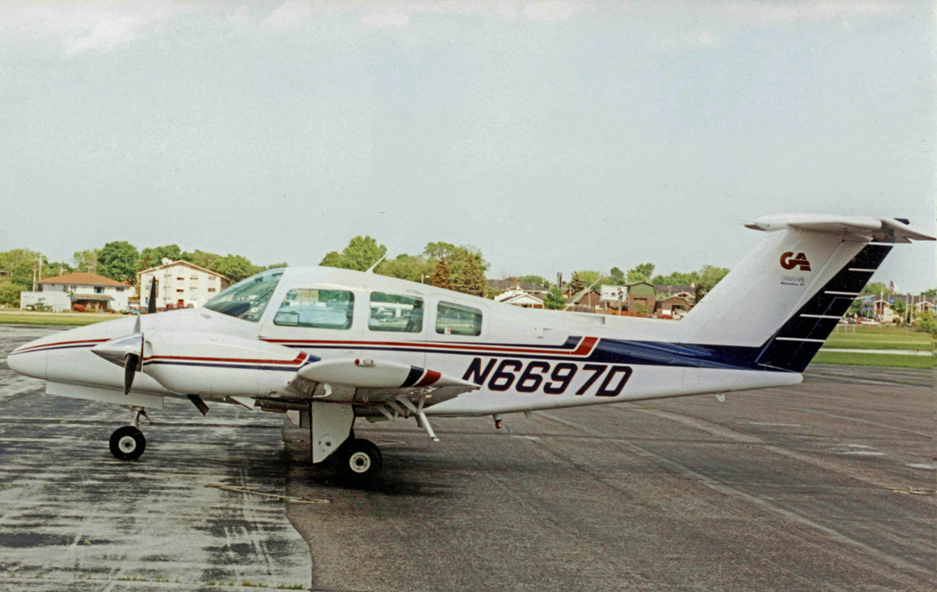 1979-built Beech Duchess at Timmerman Airport, Milwaukee in 2006